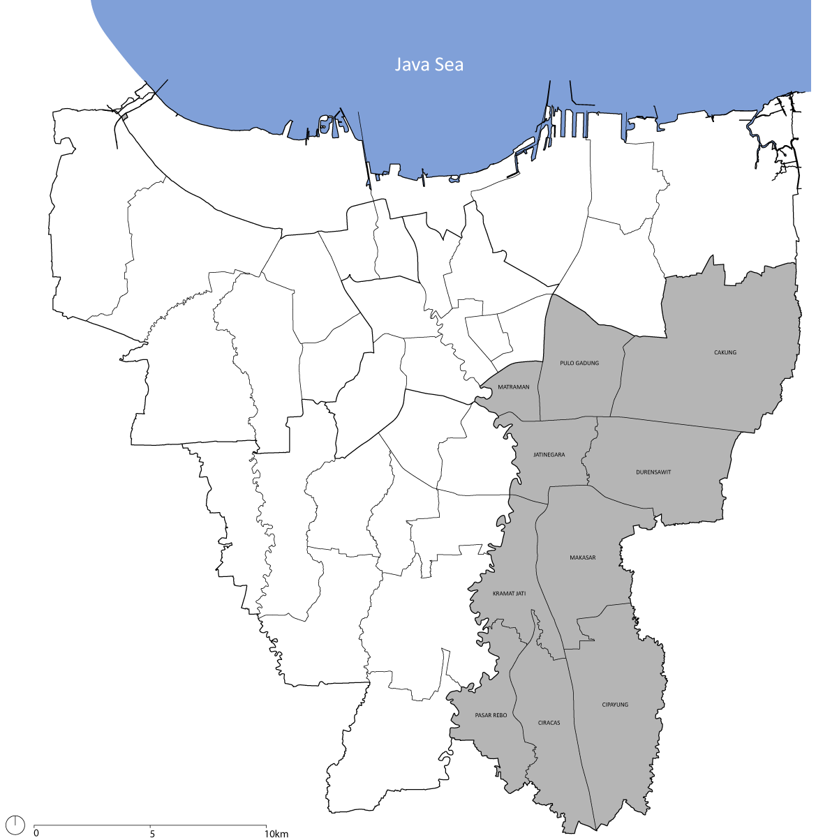 City (Kota Administrasi) of East Jakarta divided into several Subdistricts (Kecamatan)